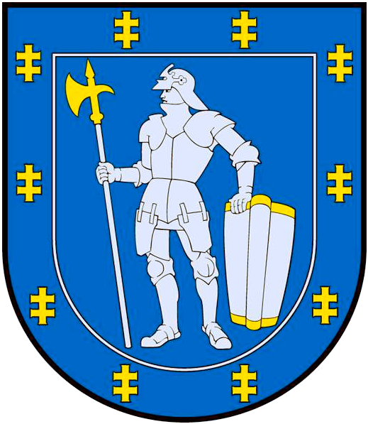 Coat of arms of Alytus County, Lithuania